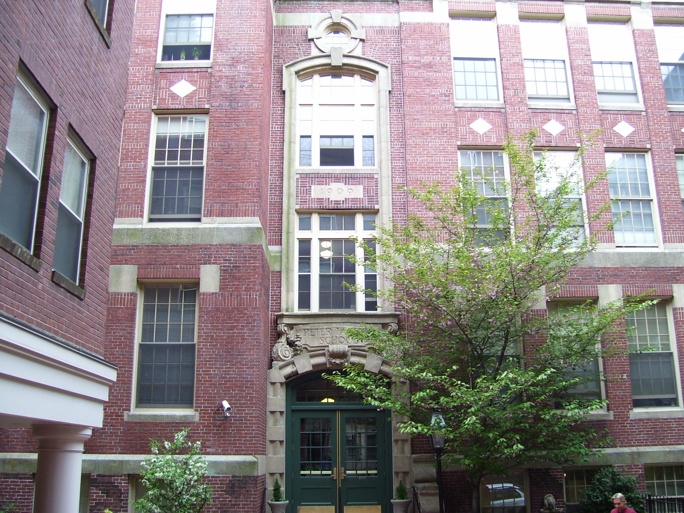 This is my 2008 photo of Peter Faneuil School in Boston, MA